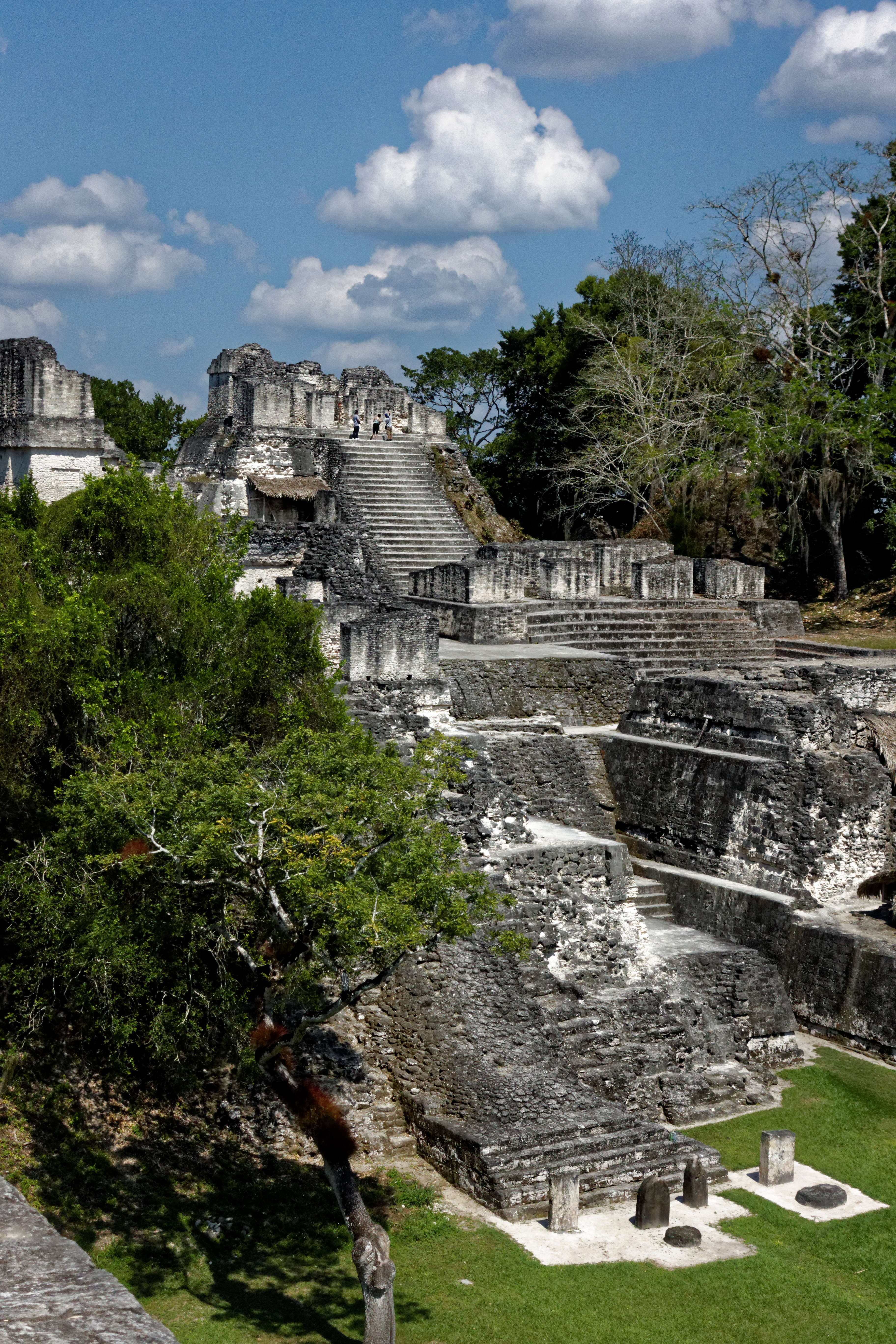 Tikal 2-19